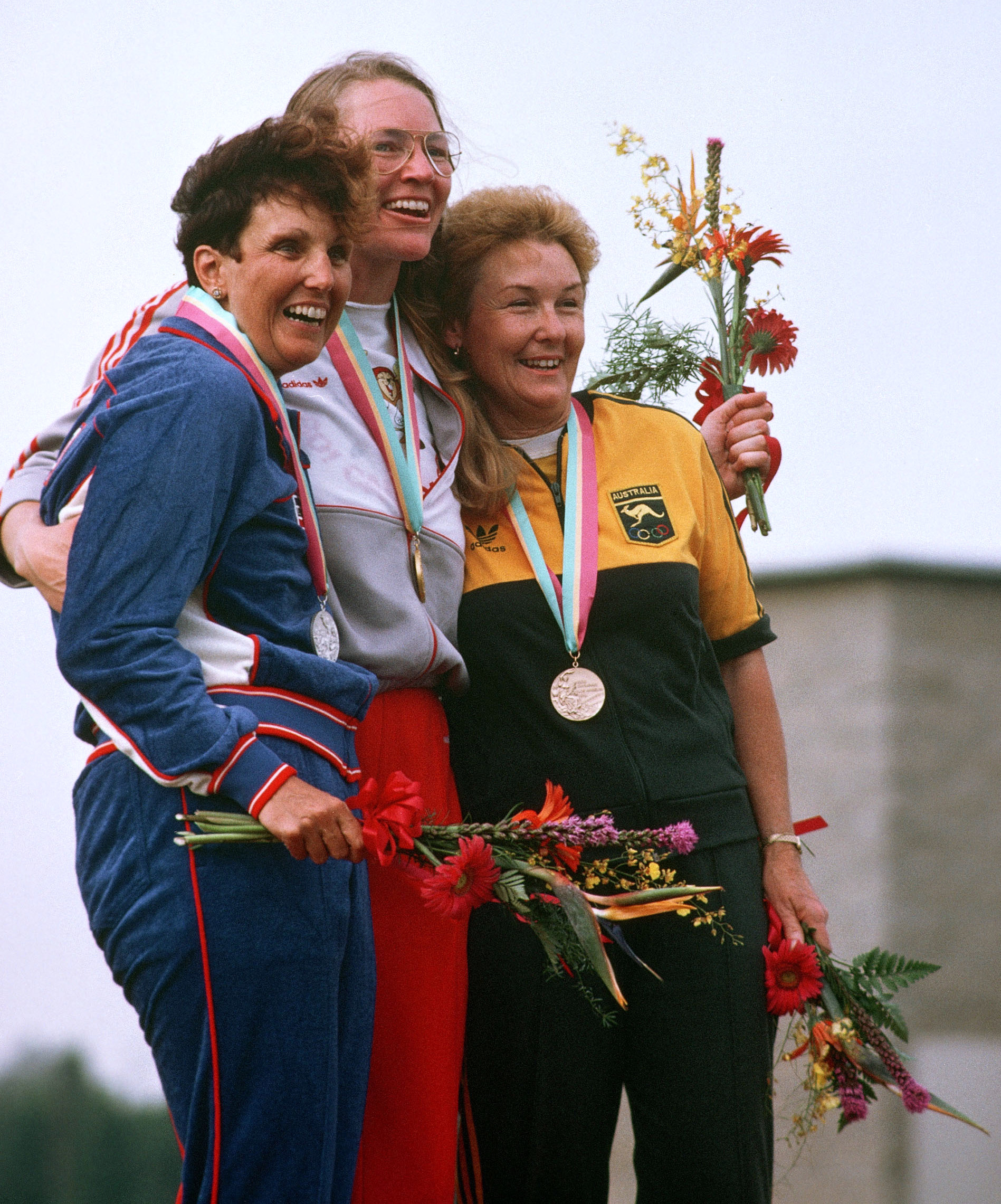 Army Specialist 5 Ruby E. Fox, left, a silver medalist in the sport pistol shooting competition, stands with the gold (Linda Thom) and bronze (Patricia Dench) medalists at the 1984 Summer Olympics. (original text)